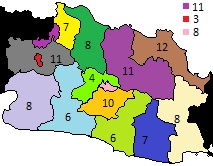 Electoral Districts in West Java for the 2019 legislative election (Provincial Council)